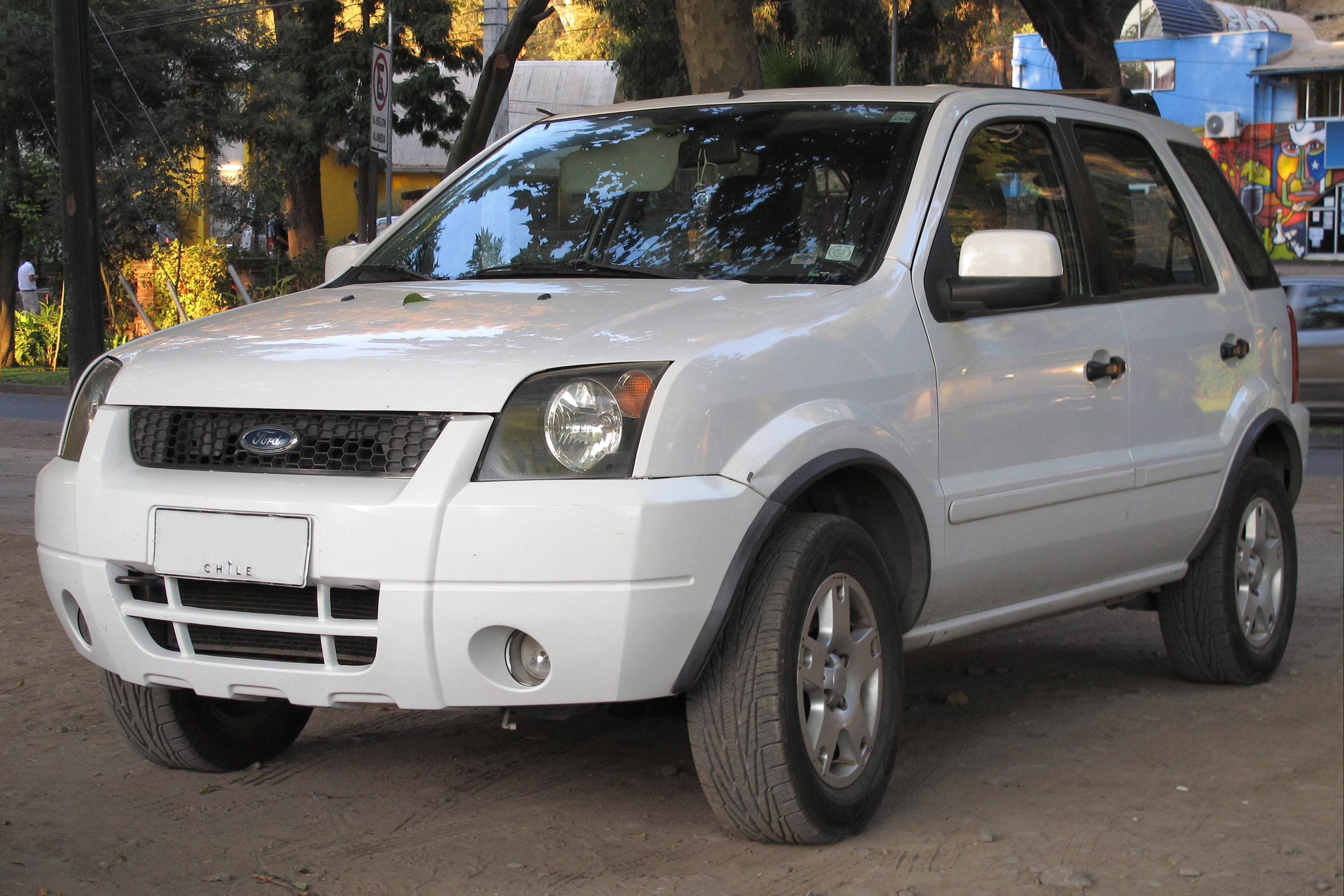 Ford EcoSport 1.6 XLT 2004